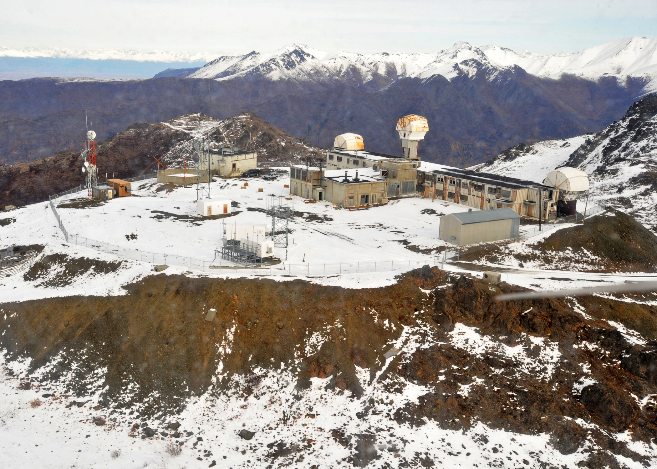 Mount Gordon Lyon, Alaska: An Alaska Nike missile site, known as Site Summit, is shown through the window of a UH-60 Blackhawk from the Alaska Army National Guard Oct. 2, 2009. Site Summit is a Cold War-era Army Air Defense Command Nike missile site intended to protect American cities from Soviet bombers through an early warning and anti-aircraft missile system. Soldiers stationed at the site during the Cold War were prepared to launch Nike Hercules missiles to take the bombers down.